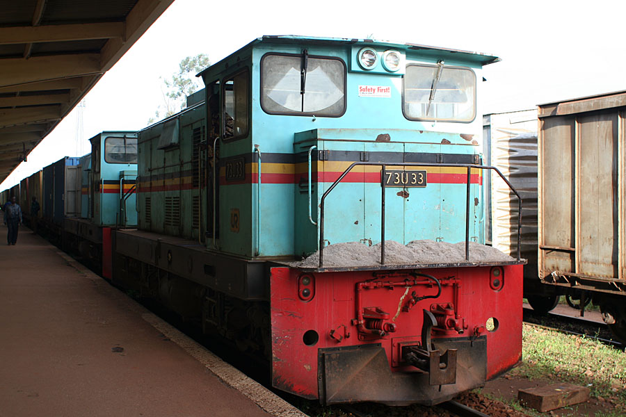 Uganda Railways Corporation locomotives at Kampala Railway Station, Uganda, 23 November 2006. Photo by Dan Birchall with permission from Uganda Railways Corporation. Dan 08:58, 26 December 2006 (UTC)